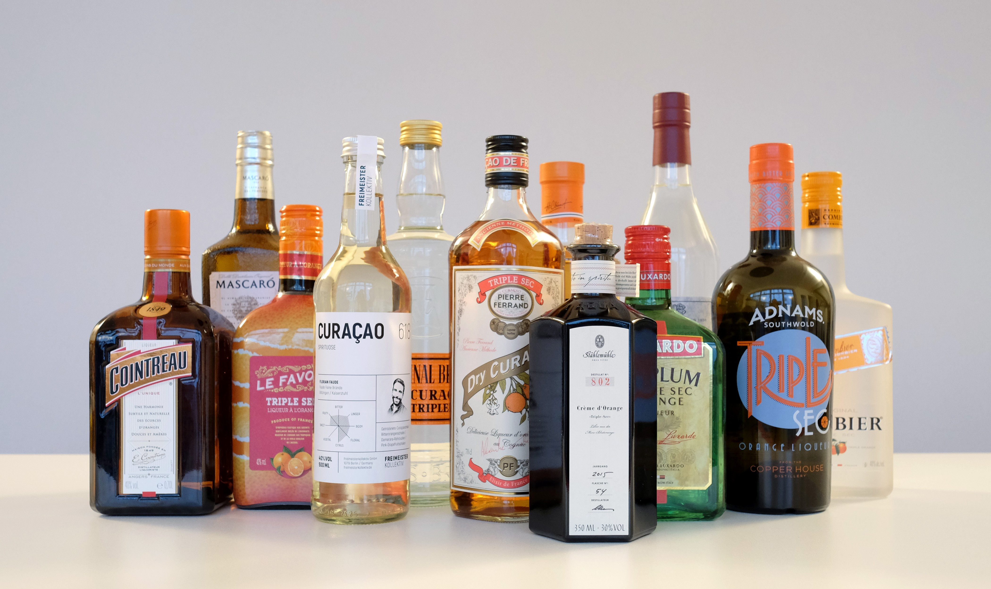 Several bottles of orange liqueurs, most of them Triple Sec Curaçaos